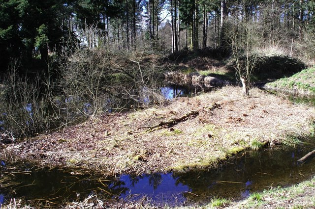 Floating island in Stanstead Great wood This island is composed of sphagnum moss and sedge, it moves in strong winds.